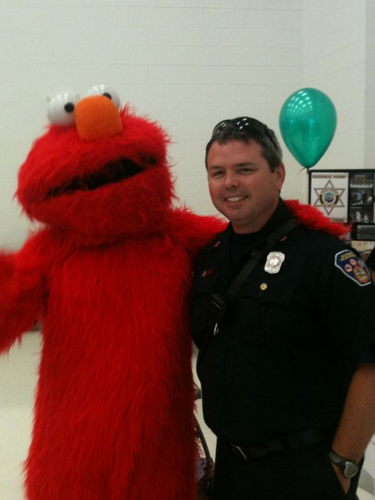 Firefighter at Public Education Event